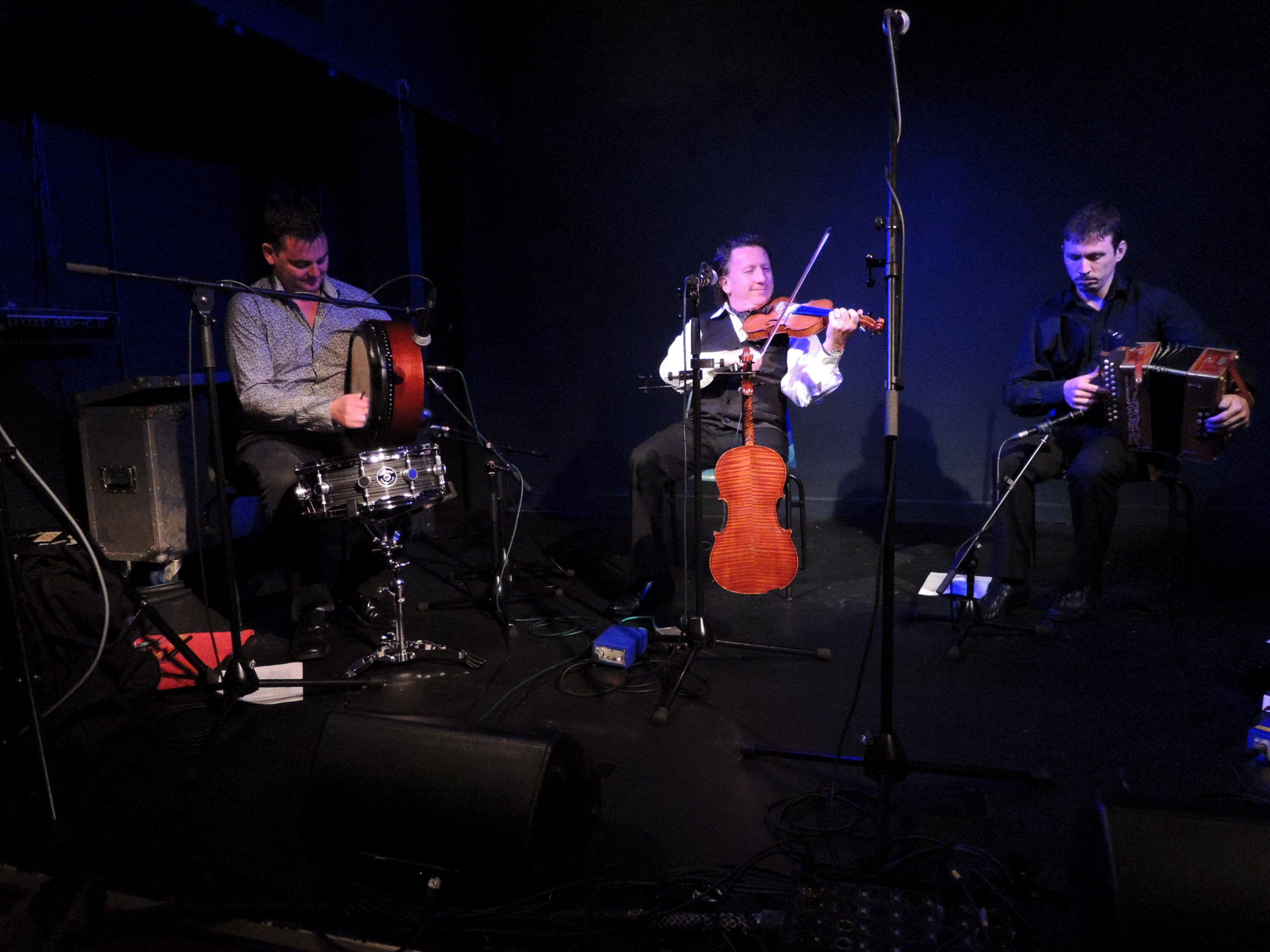 Frankie Gavin and the new De Dannan at the "Craiceann Bodhrán Festival" 2012